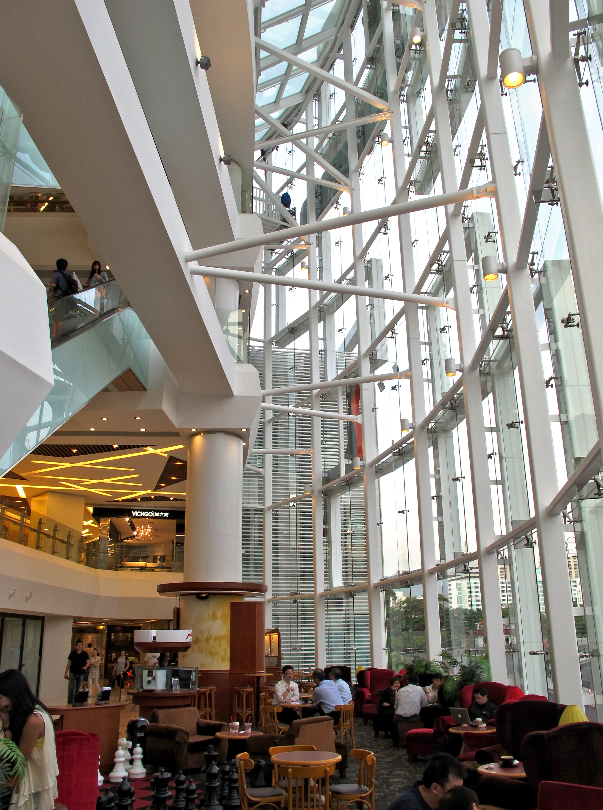 HomeSquare New Void